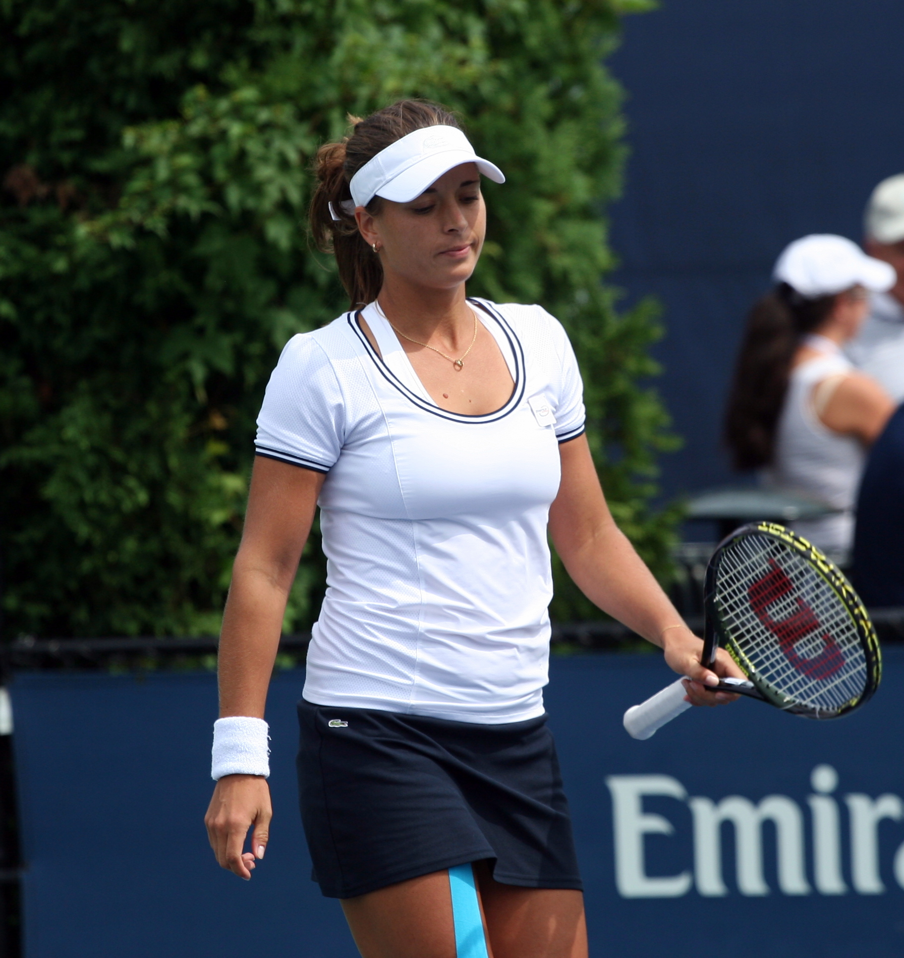 Petra Cetkovská at the 2013 US Open, Friday, August 30